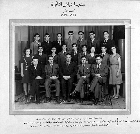 The graduating class of the Shamash High School with their teachers, Baghdad, Iraq 1947. (Beth Hatefutsoth Photo Archive, courtesy of Naim Dangoor, Israel)